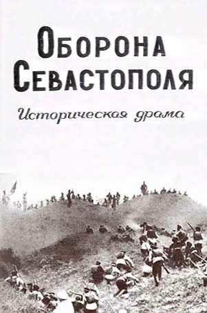 Defence of Sevastopol